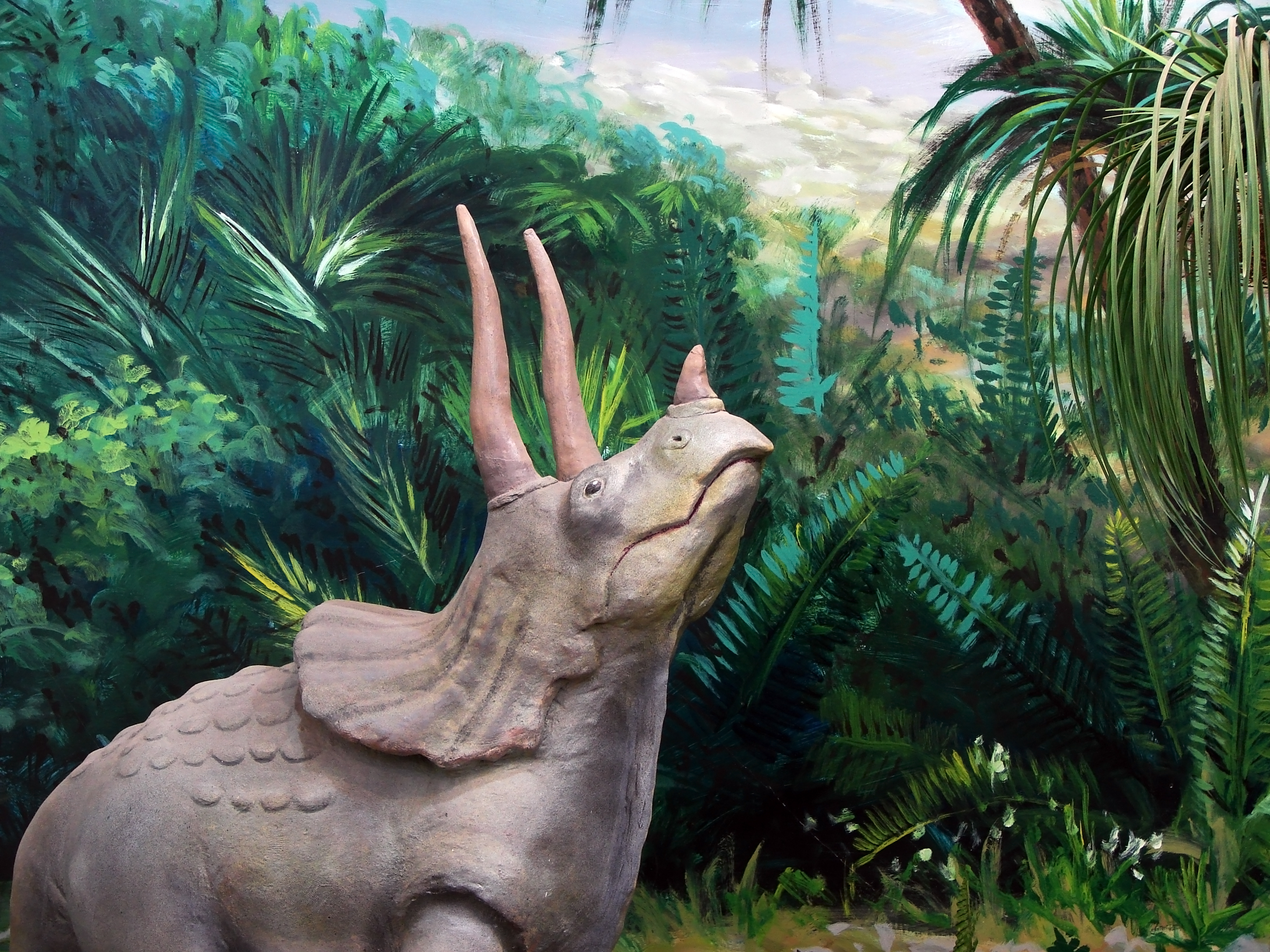 Taxidermy is the preserving of an animal's body via stuffing or mounting for the purpose of display or study.